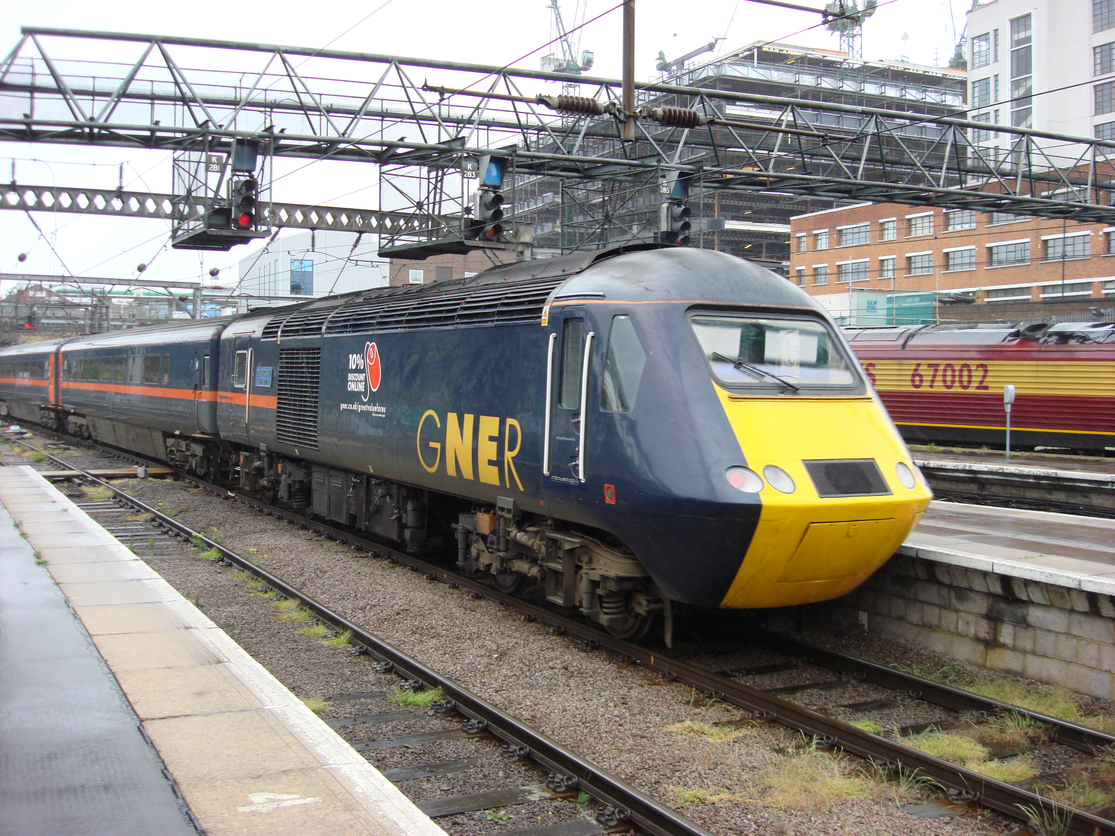 43367 leaving Kings Cross named "DELTIC 50"